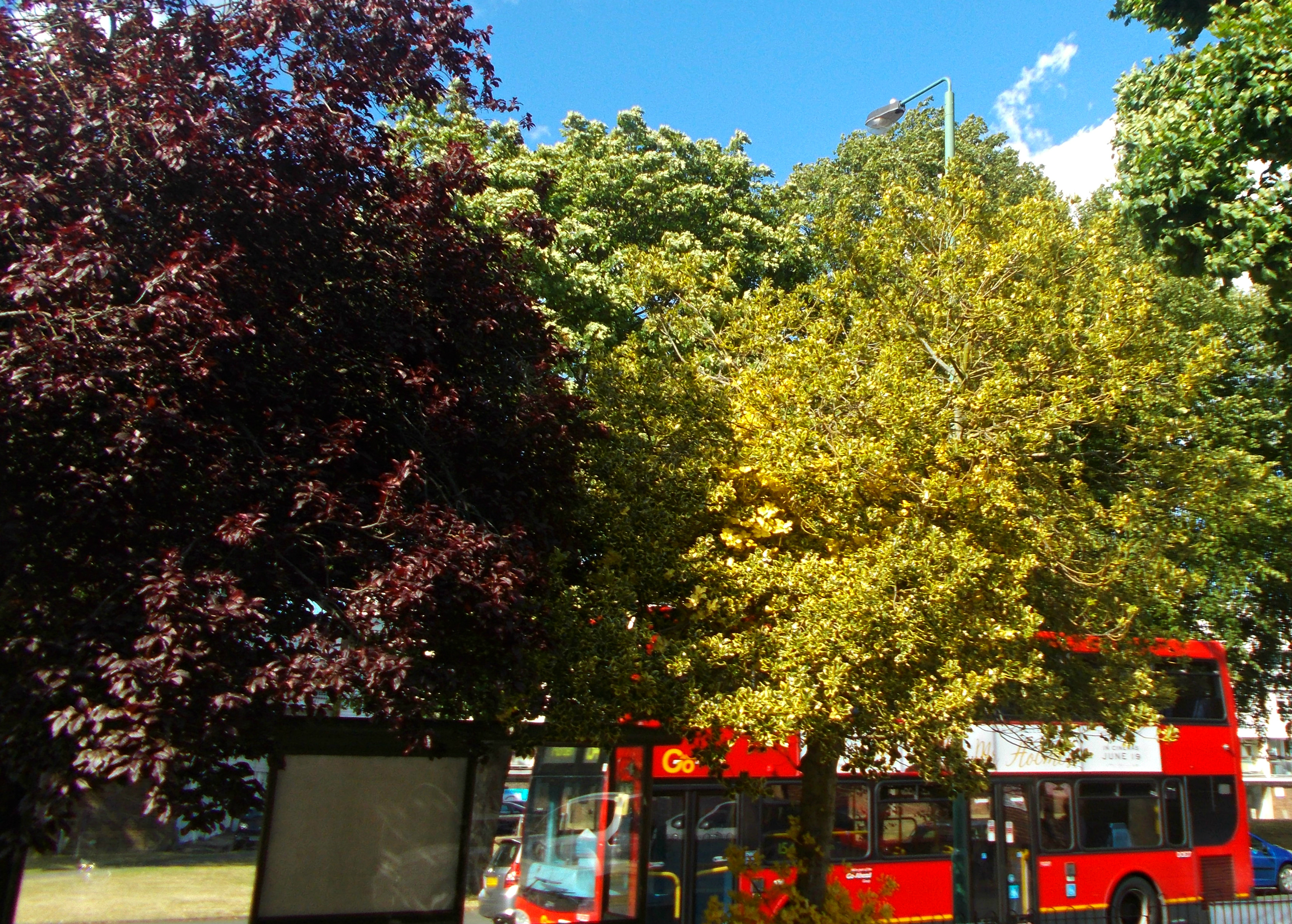 Bus surrounded by trees